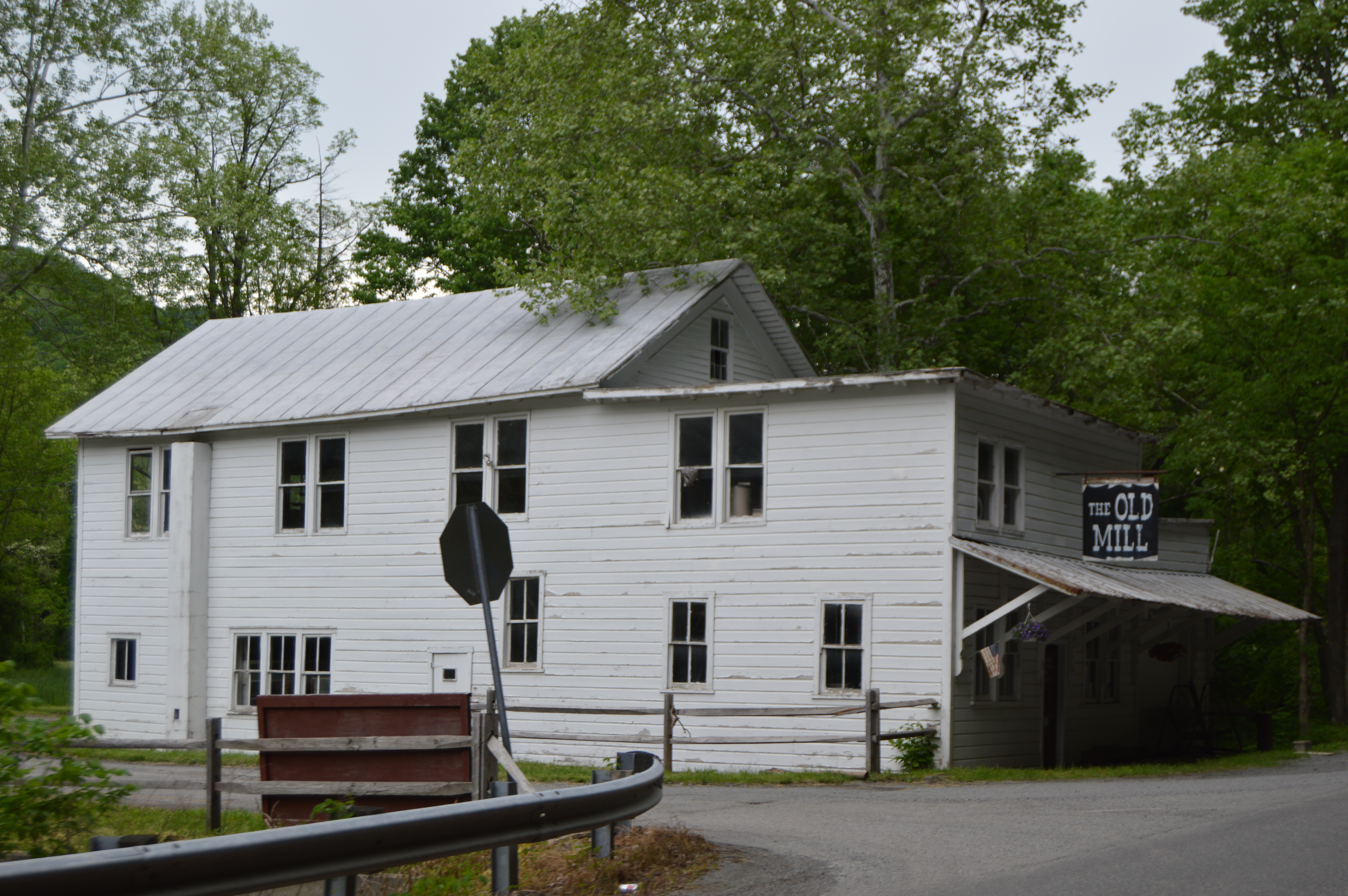 Front and southern side of the Day-Vandevander Mill, located along West Virginia Route 32 north of Harman in Randolph County, West Virginia, United States. Built in 1877, it is listed on the National Register of Historic Places.